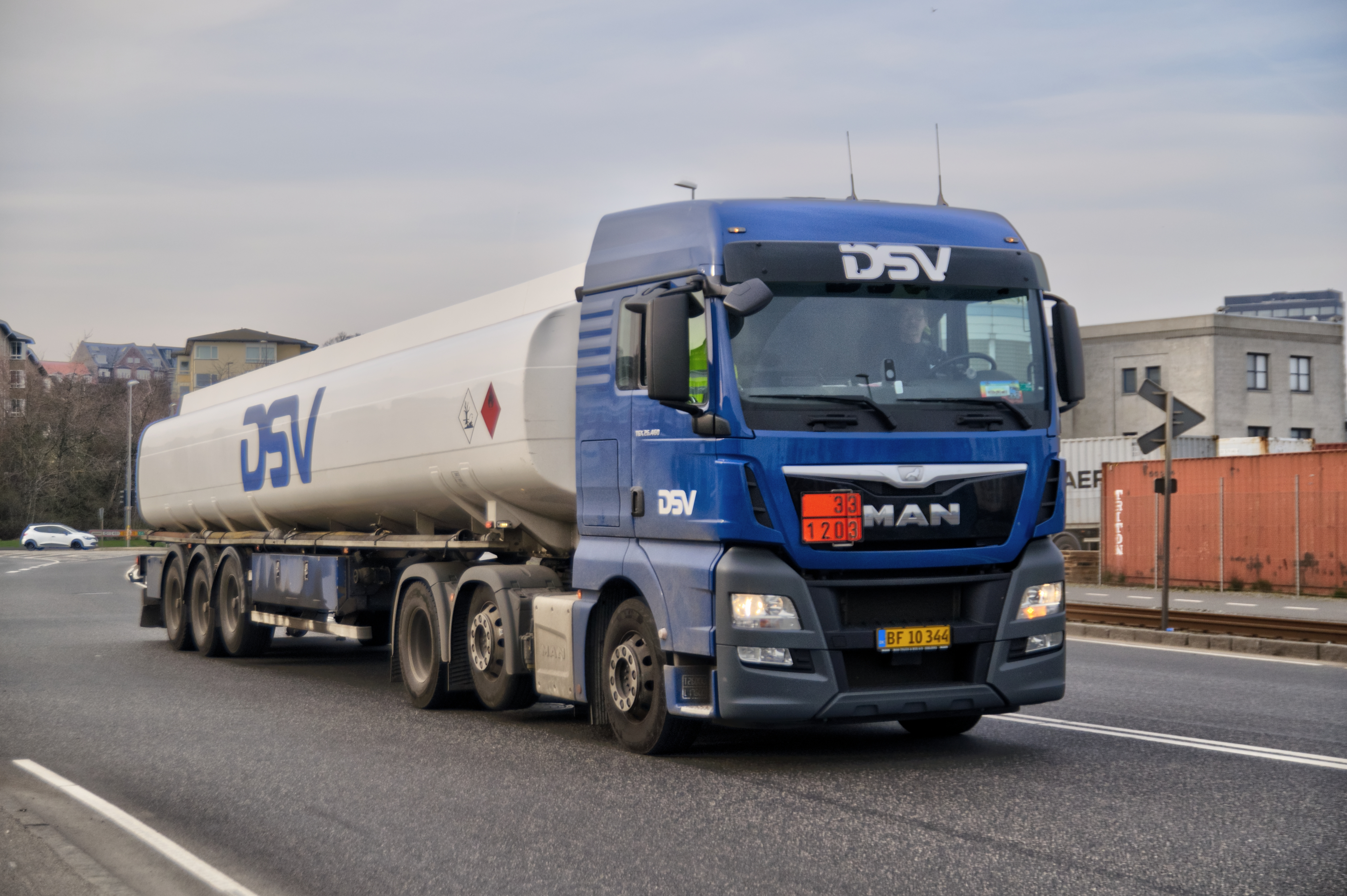 Model: MAN TGX 26.460 6x2/2 BLS VIN: WMA24XZZ7HM725609 1. Registration: 2016-11-17 Company: DSV Transport, Hedehusene (DK) Fleet No.: - Nickname: - License plates: BF10344 (nov. 2016-?) Previous reg.: n/a Later reg.: n/a Retirement age: still active at time of upload (2017) Photo location: Østhavnsvej/Oliehavnsvej, Port of Aarhus, DK Tip: to locate trucks of particular interest to you, check my collections page, "truck collection" - here you will find all trucks organized in albums, by haulier (with zip-codes), year, brand and country. Retirement age for trucks: many used trucks are offered for sale on international markets. If sold to a foreign buyer, this will not be listed in the danish motor registry, so a "retired" truck may or may not have been exported. In other words, the "retirement age" only shows the age, at which the truck stopped running on danish license plates.